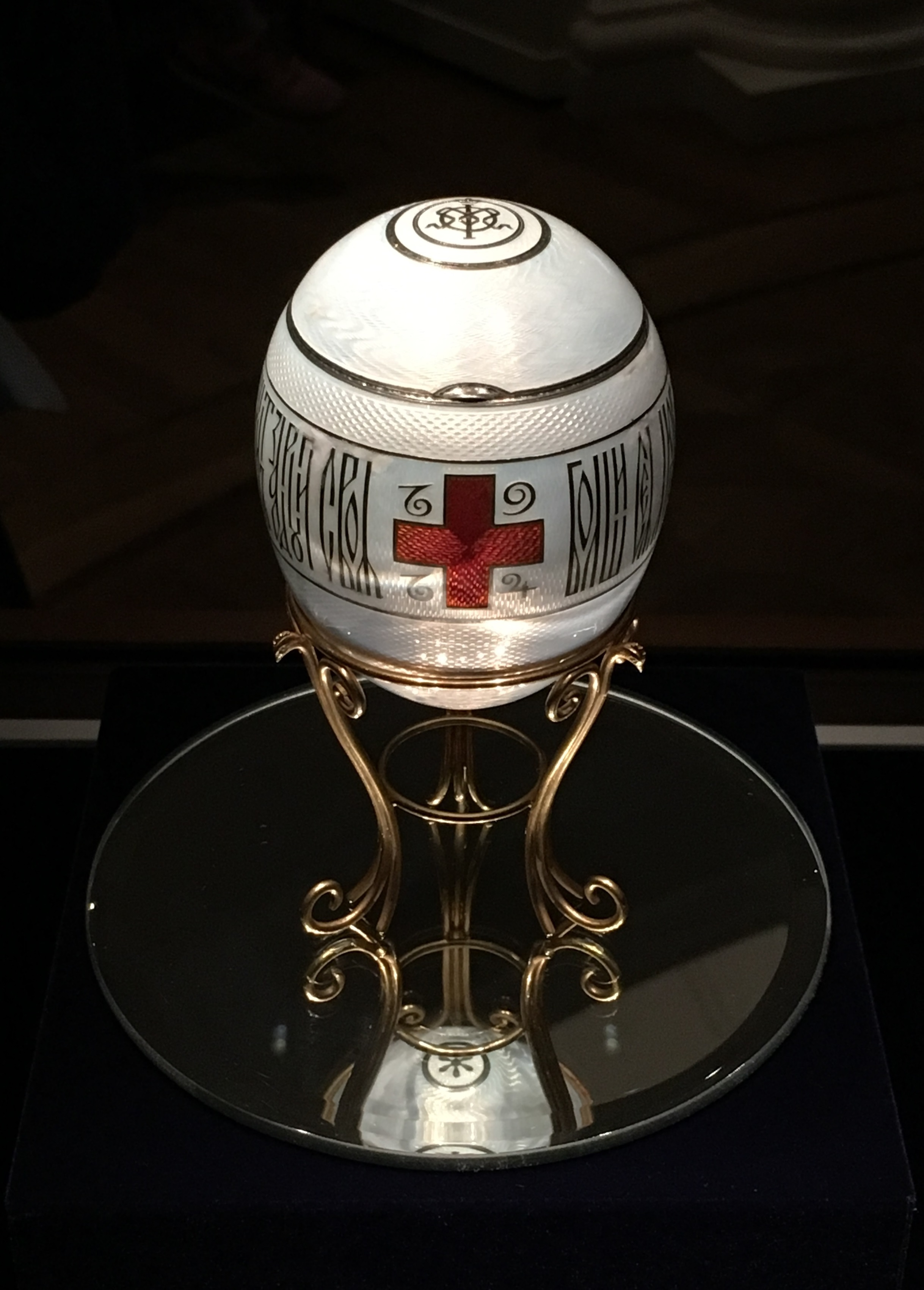 The Red Cross with Imperial portraits egg (or the Imperial Red Cross Easter Egg) is a jewelled and enameled Easter egg made by Henrik Wigström (1862–1923) under the supervision of the Russian jeweller Peter Carl Fabergé in 1915, for Nicholas II of Russia, who presented the egg to his mother, the Dowager Empress Maria Feodorovna, in the same year.